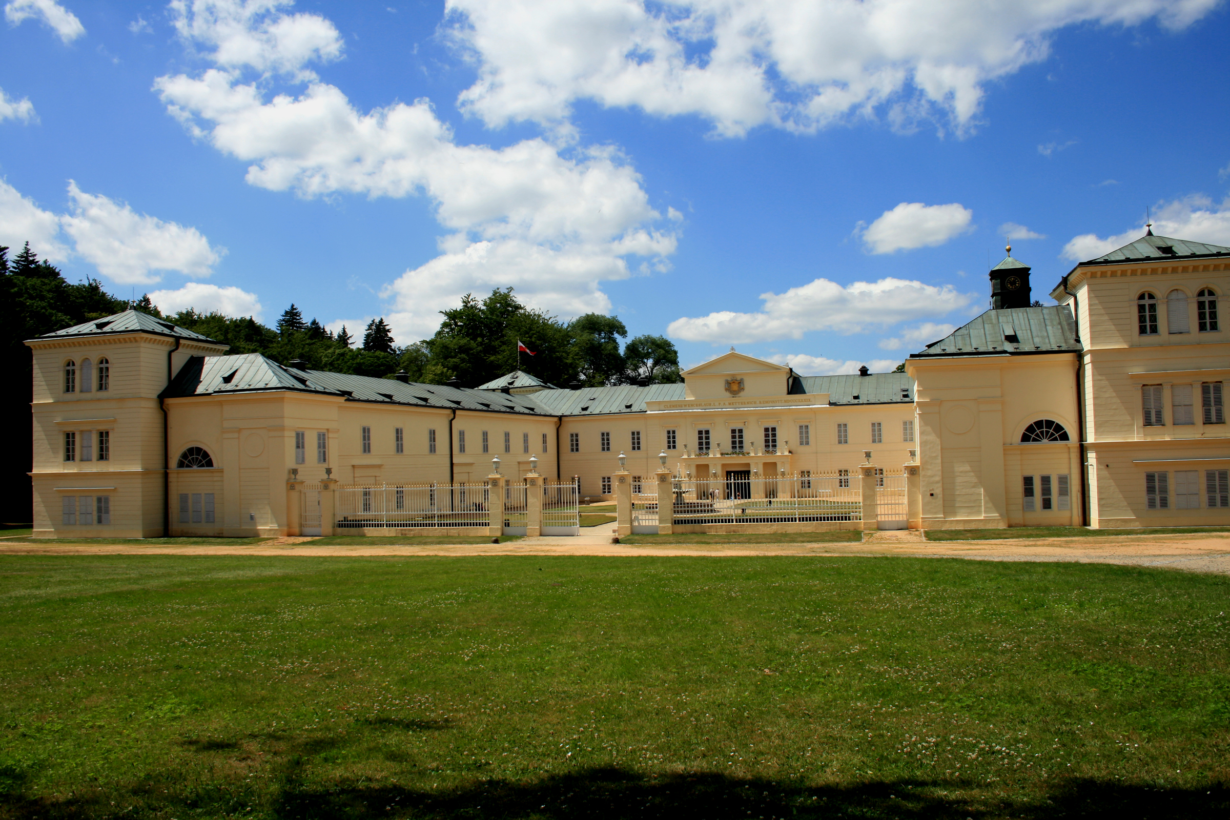 Castle Kynžvart near Mariánské Lázně in west of Czech republic